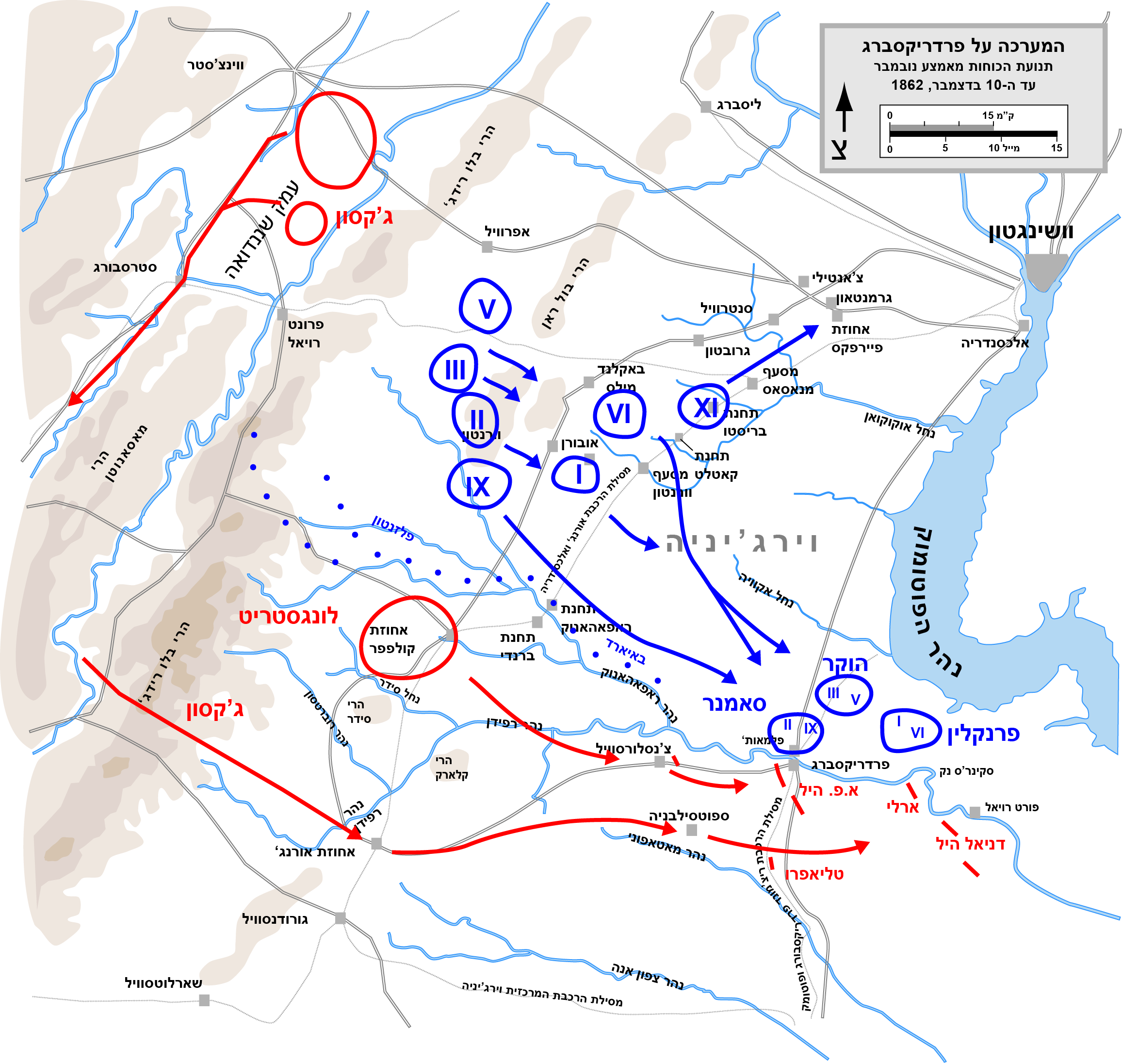 Map of the Battle of Fredericksburg of the American Civil War, overview. Drawn in Adobe Illustrator CS5 by Hal Jespersen. Graphic source file is available at